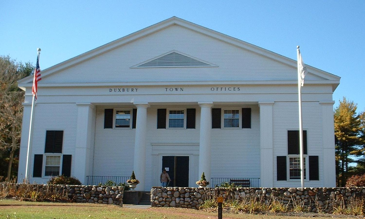 Duxbury Town Offices, Duxbury, Massachusetts